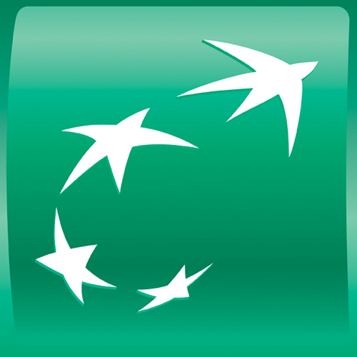 BNP Paribas CIB